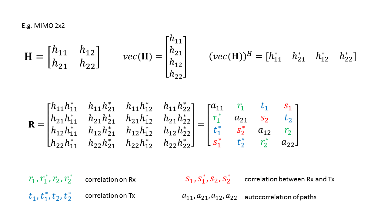 Developed according to [1].